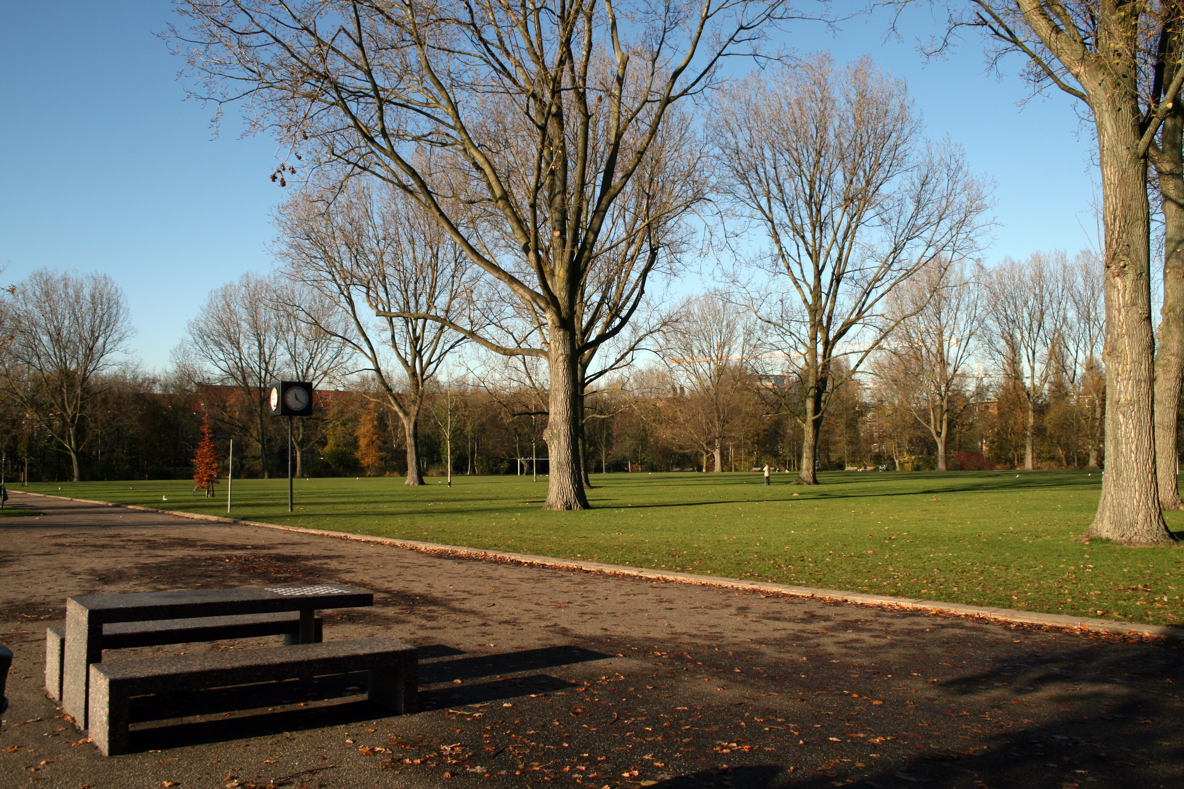 The Erasmuspark is a park in Amsterdam.